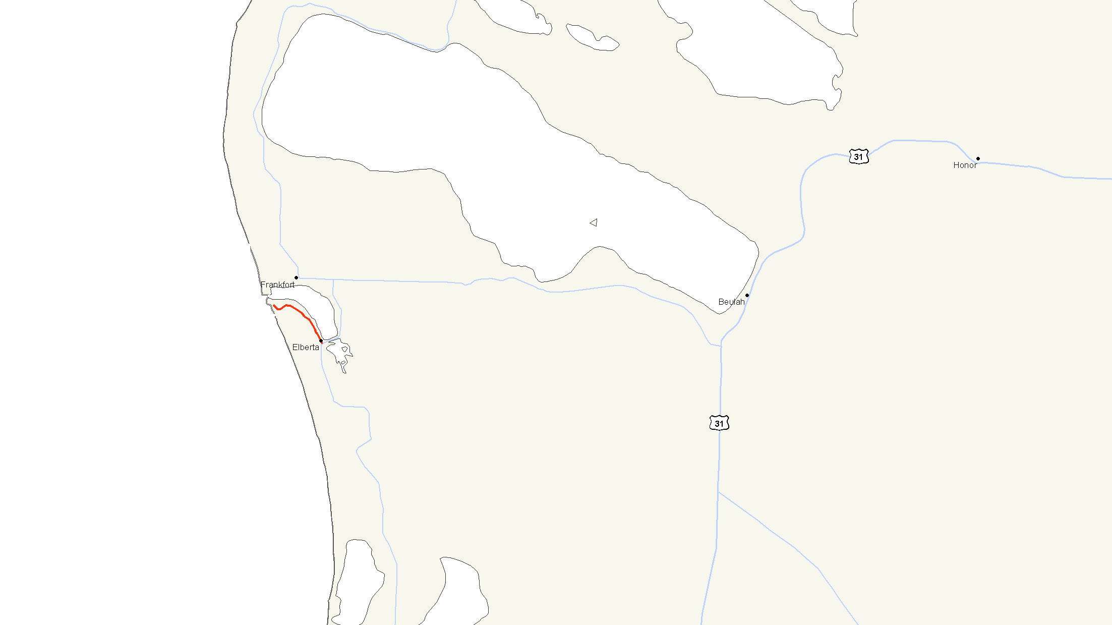 Map of M-168